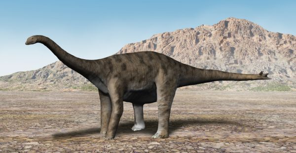 Spinophorosaurus restoration. Matches the proportions of the skeletal diagram in the original description:[1]